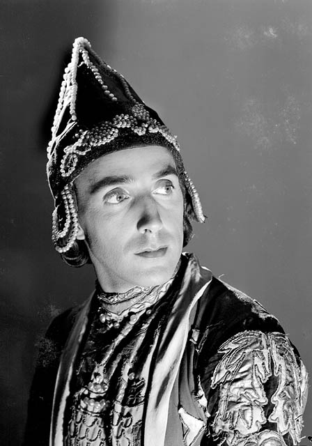 Format: Photograph Notes: Find more detailed information about this photographic collection: .au/item/itemDetailPaged.aspx?itemID=414341 Search for more great images in the State Library's collections: .au/search/SimpleSearch.aspx From the collection of the State Library of New South Wales